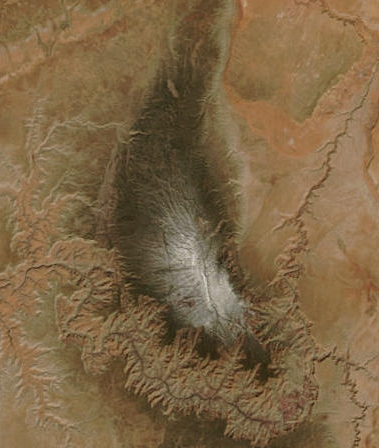 Satellite image of Kaibab Plateau by NASA's MODIS, 250 meter resolution. Original: "This beautiful view of California (far left), Nevada (left), Utah (right) and Arizona (bottom right) was acquired by the MODIS on the Terra satellite on April 20, 2006. There are a number of famous features shown in this image."